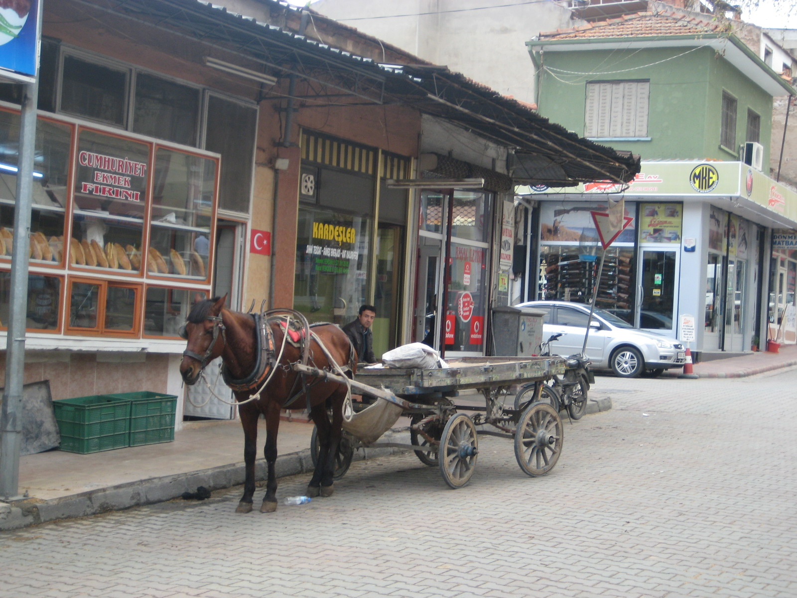 A horse carriage in Alasehir, a major farming town.